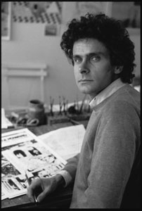 Cosey